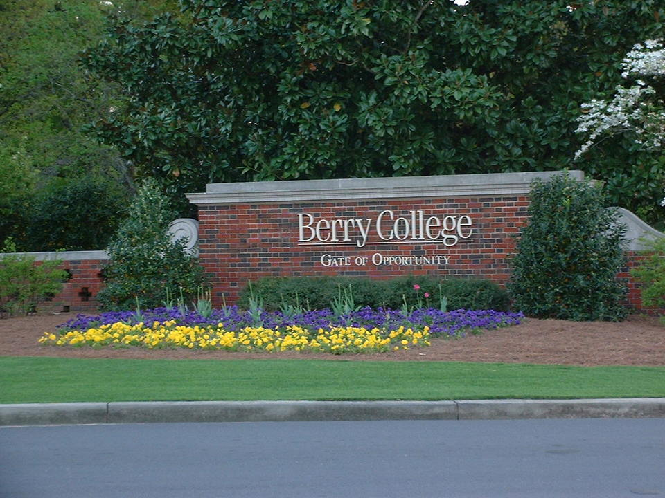 Berry College sign